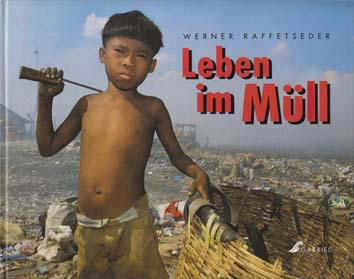 Cover of Werner Raffetseder's photo art book 'Leben im Müll' ('A Life in Rubbish'). Young rubbish collector on 'Smokey Mountain', Manila.